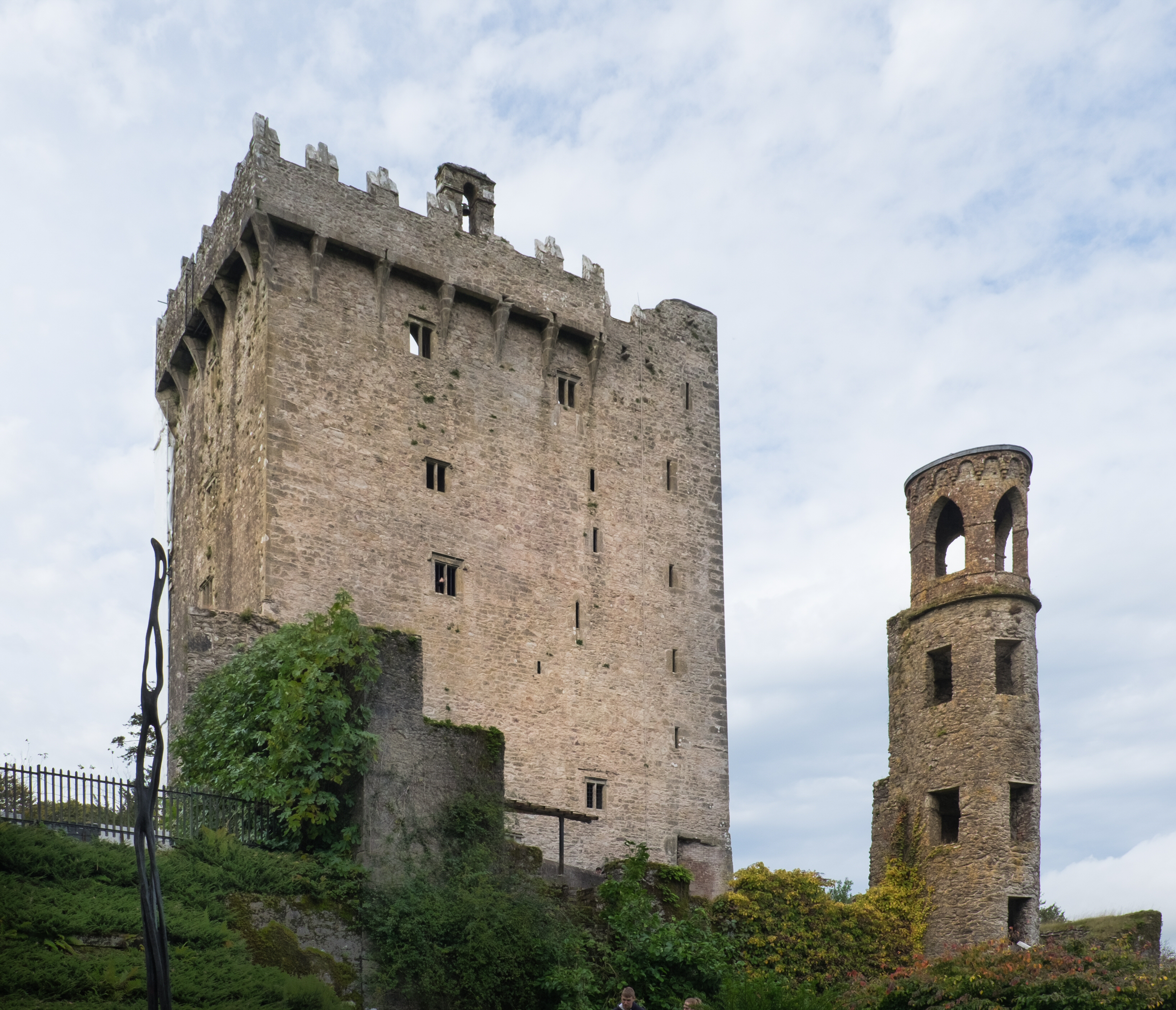 Blarney Castle